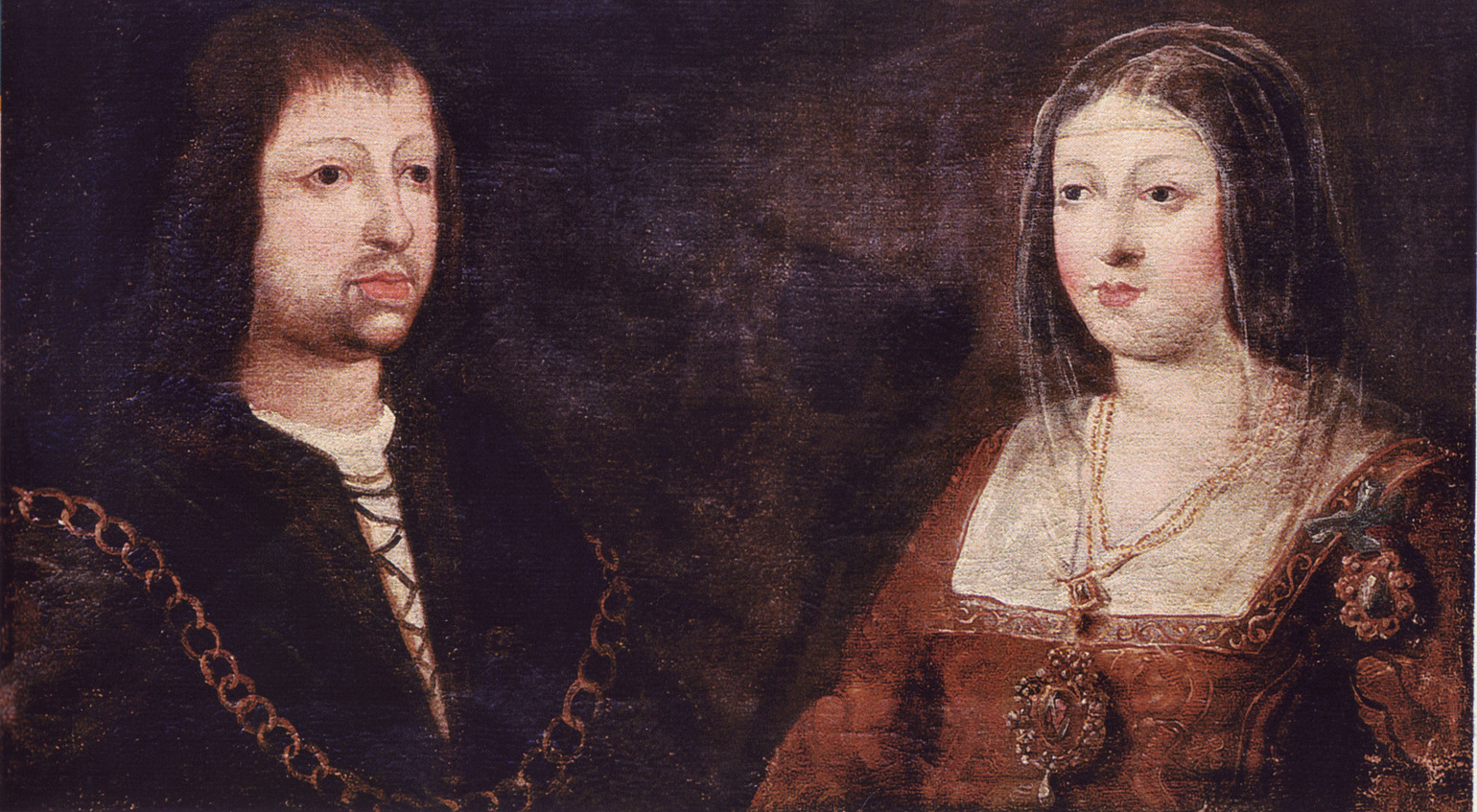 Wedding portrait of King Ferdinand of Aragon and Queen Isabella of Castile